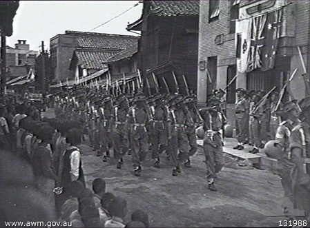 AWM Caption: SAIJO, JAPAN. 1946-09-20. VX91635 SERGEANT V. R. MARSHALL, 66TH INFANTRY BATTALION, LEADING 15 PLATOON, PAST THE SALUTING BASE DURING THE FLAG MARCH THROUGH THE TOWN.